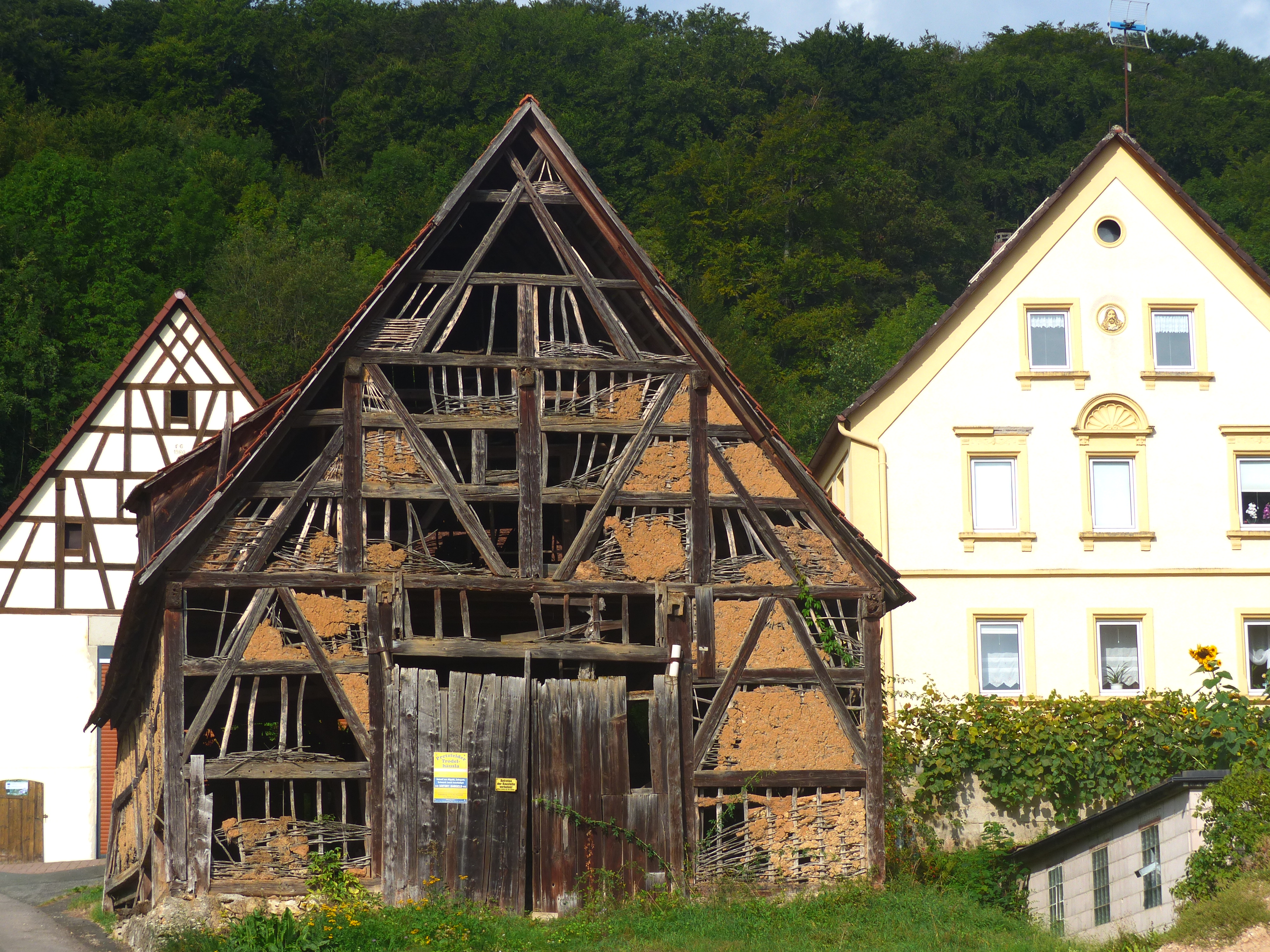 A barn in the village Poxstall, a district of the town of Ebermannstadt.